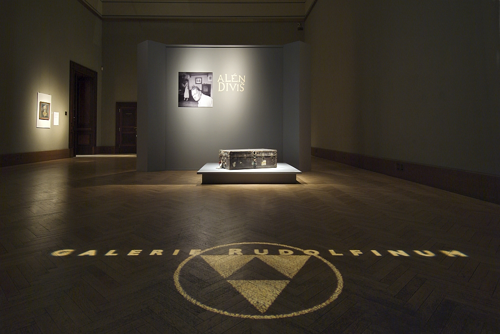 Exhibition Alén Diviš